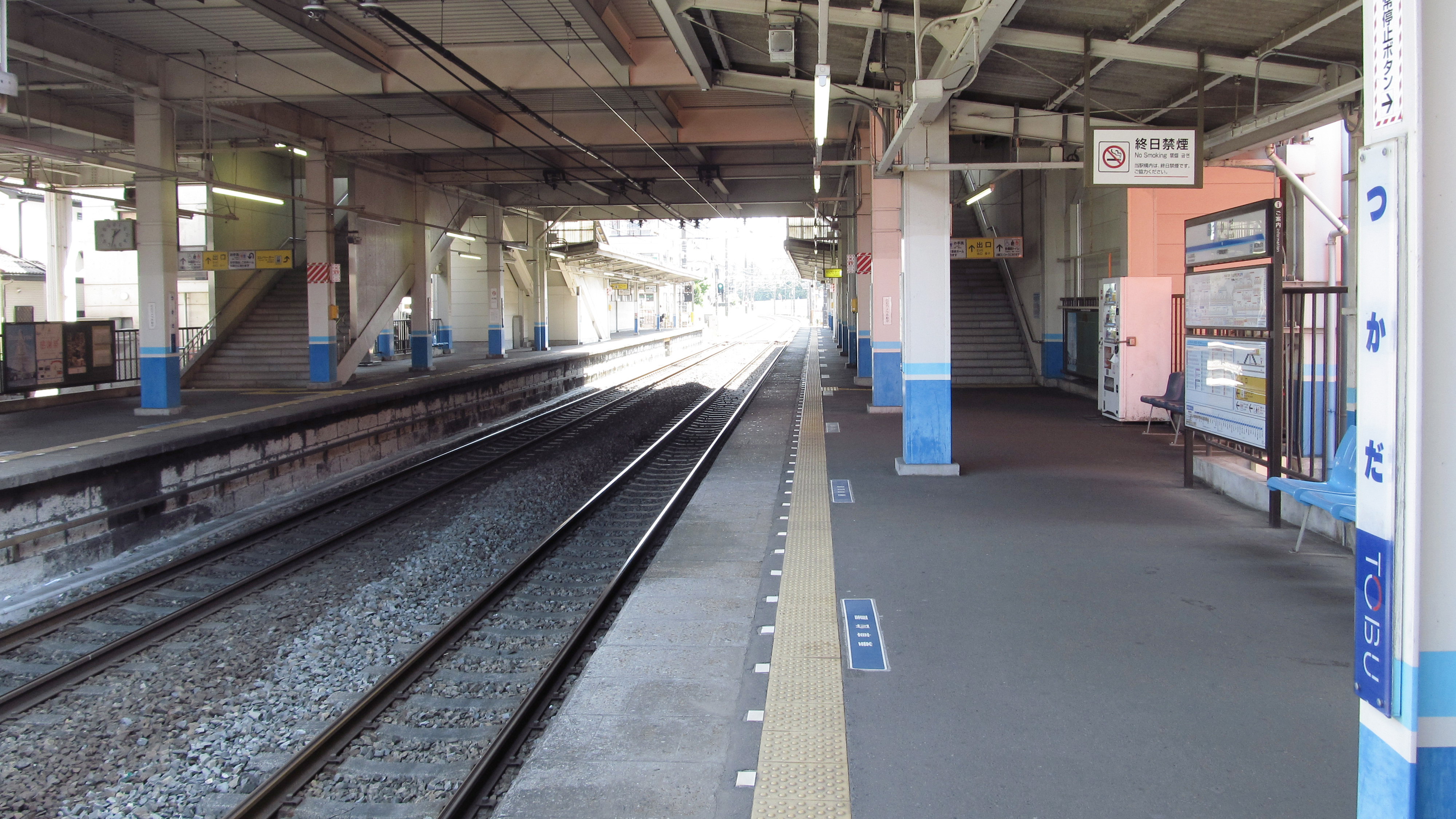 The platforms at Tsukada Station on the Tōbu Urban Park Line (former Noda Line) in Funabashi, Chiba Prefecture, Japan